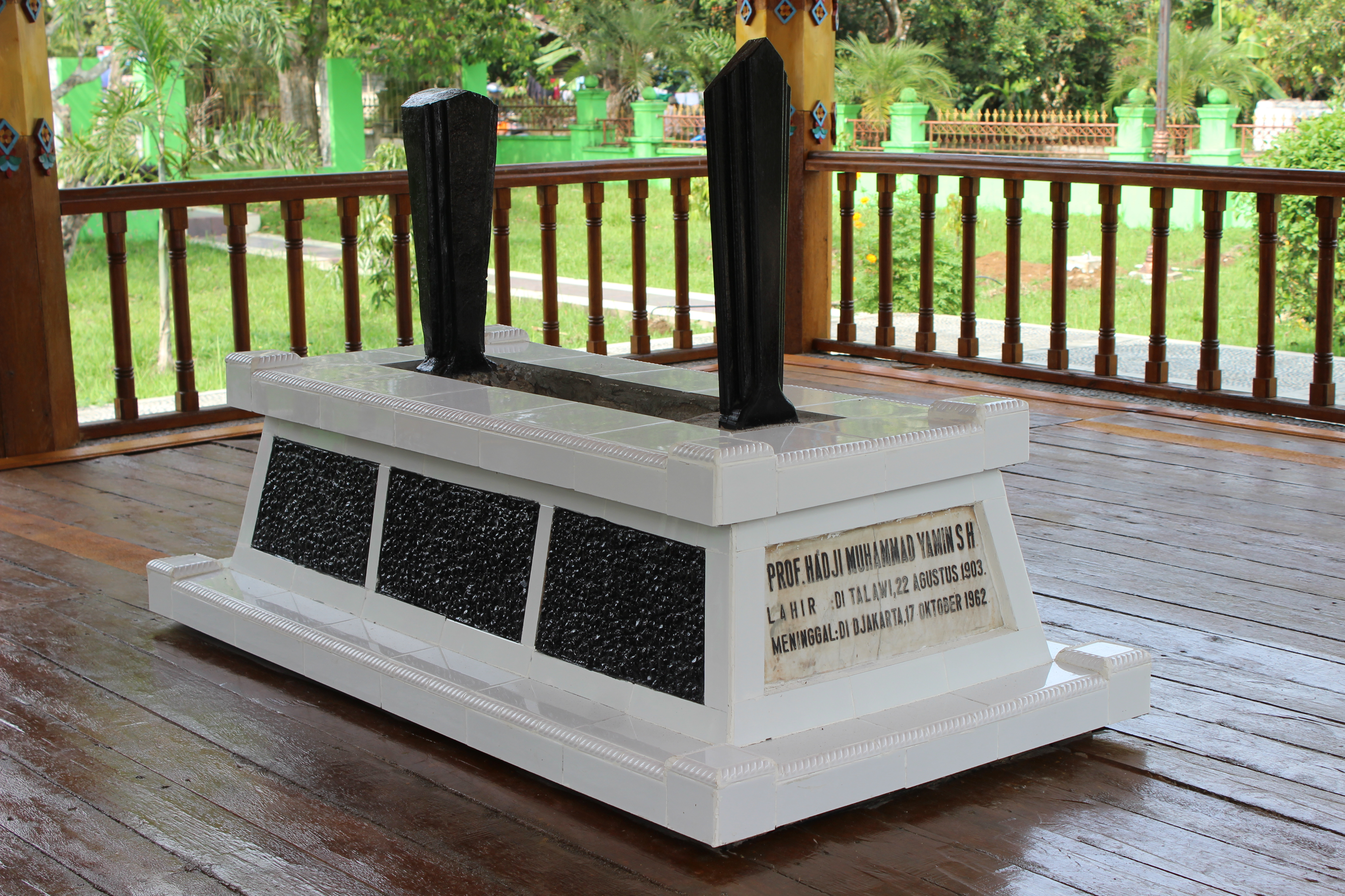 Tomb of Muhammad Yamin in Talawi, Sawahlunto, West Sumatra.